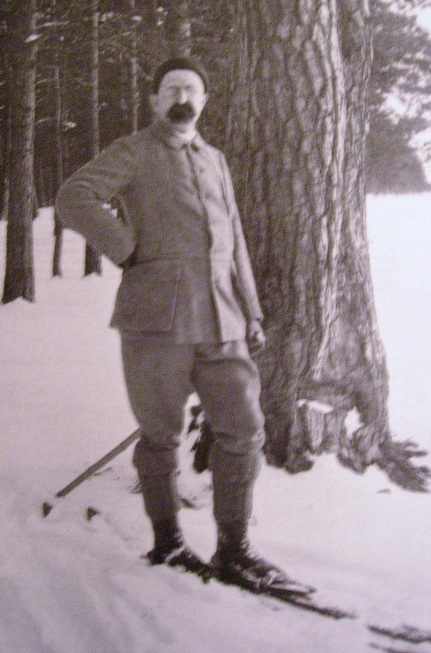 Picture of professor Leonard Jägerskiöld